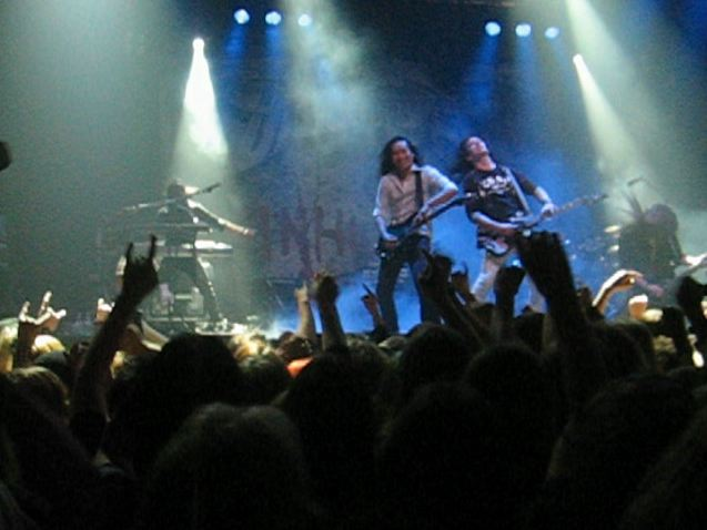 DragonForce Finnish Metal Expossa